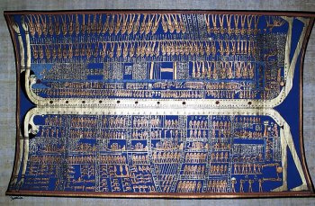 The painting showing symmetry in ancient Egyptian art.